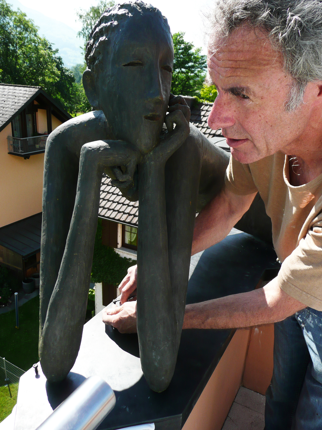 Lazy Lady with her creator, Rowan Gillespie, in Liechtenstein, June 2008